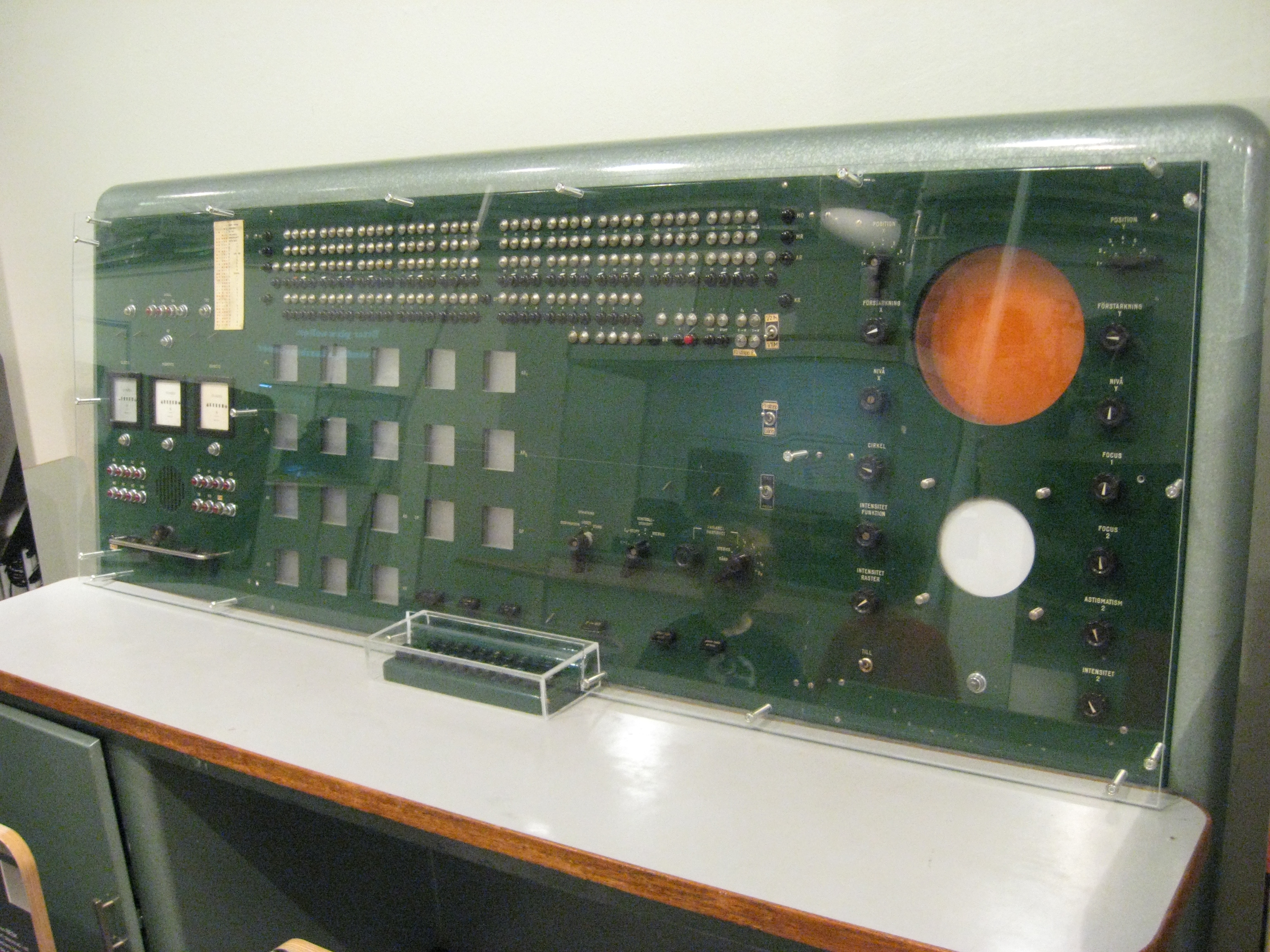 Control panel for the BESK computer.